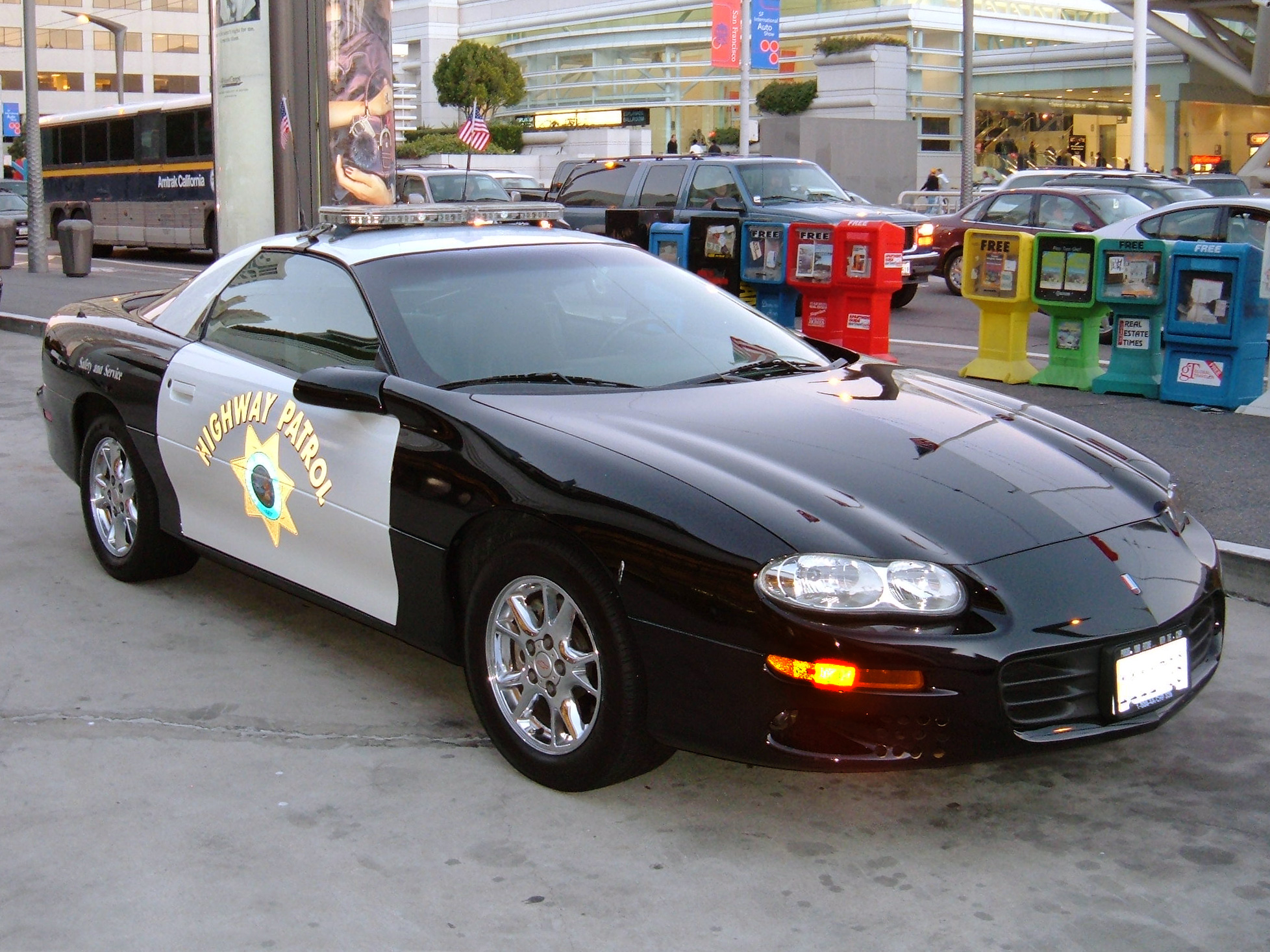 A fourth-generation Chevrolet Camaro used by the California Highway Patrol (CHP) in traditional black and white colors outside the 2004 San Francisco International Auto Show.